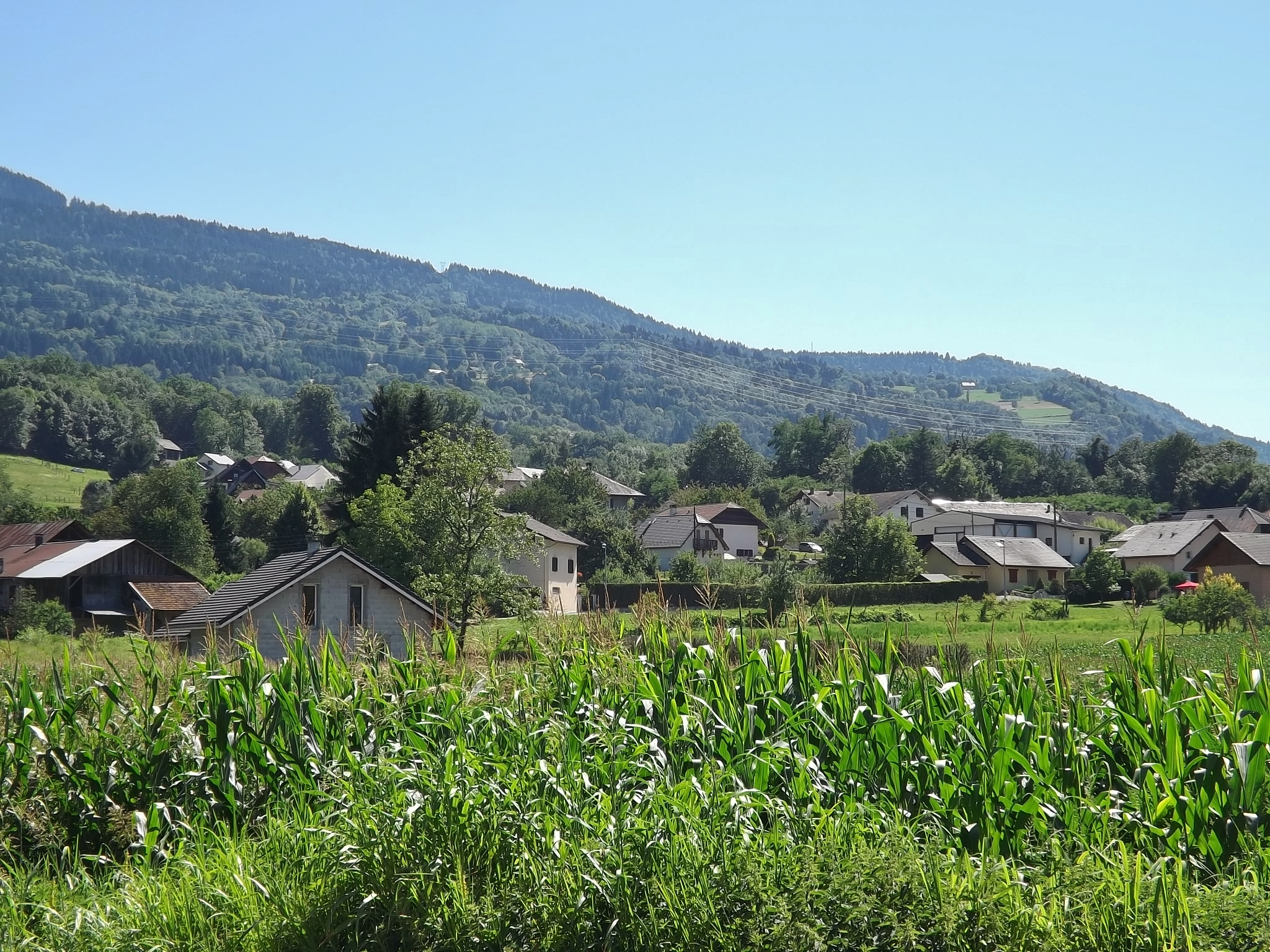 Sight of the French commune of Sainte-Hélène-sur-Isère between Chambéry and Albertville in Savoie.